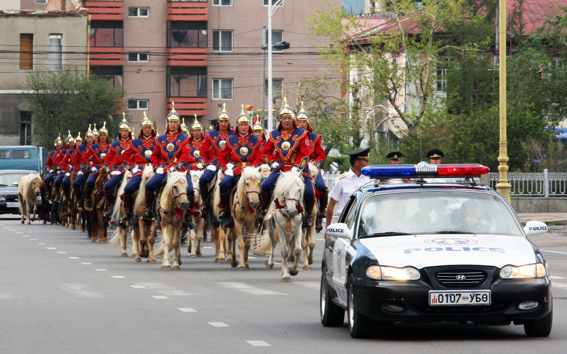 Honor guard of the Mongolian Armed Forces in a procession during Naadam, adjacent to Sukhbaatar Square